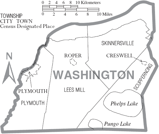 Map of Washington County, North Carolina, United States with township and municipal boundaries